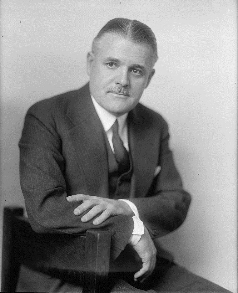 Joseph H. Himes, congressman from Ohio.